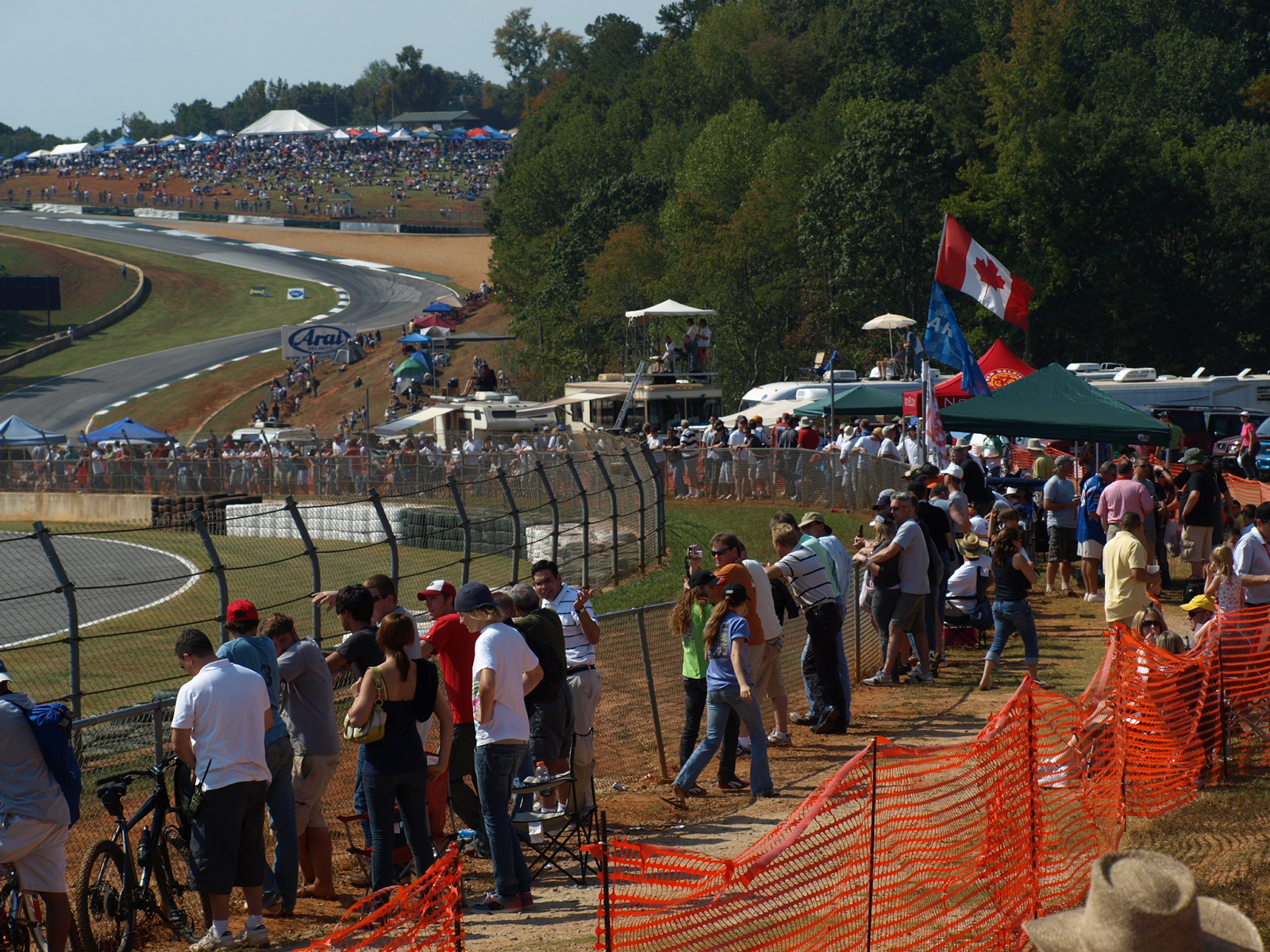 The crowd at Road Atlanta for the 2008 Petit Le Mans